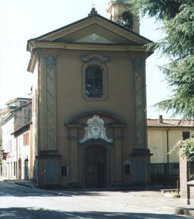 Chiesa di San Zeno a Carugo